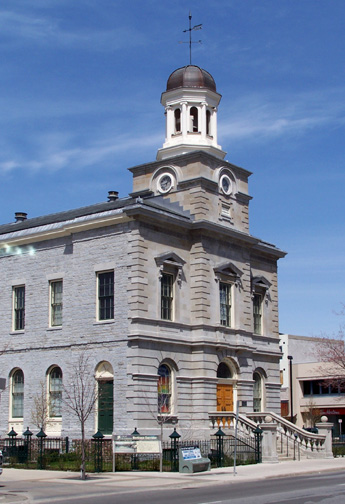 Taken by User:Trappy, April 2006. This is the St. Catharines old courthouse, located on King Street in Downtown St. Catharines. I took this picture personally with my Kodak EasyShare Z740 digital camera, and therefore release it to the public.